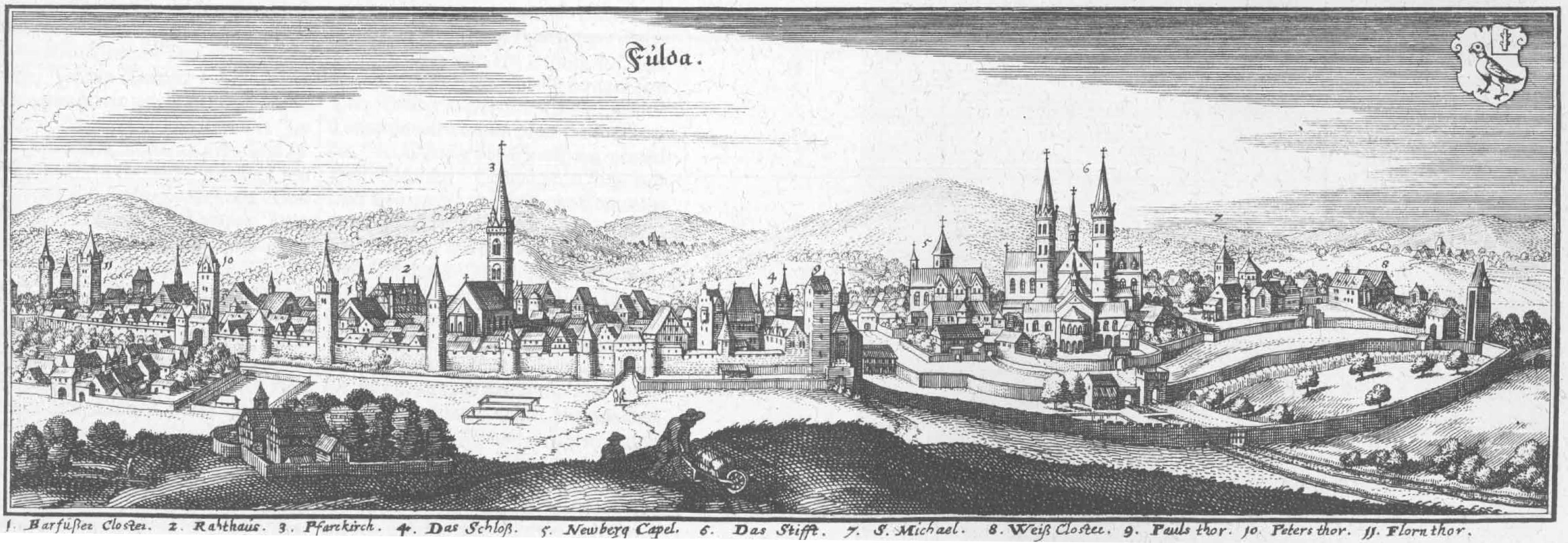 engraving of Fulda during renaissance